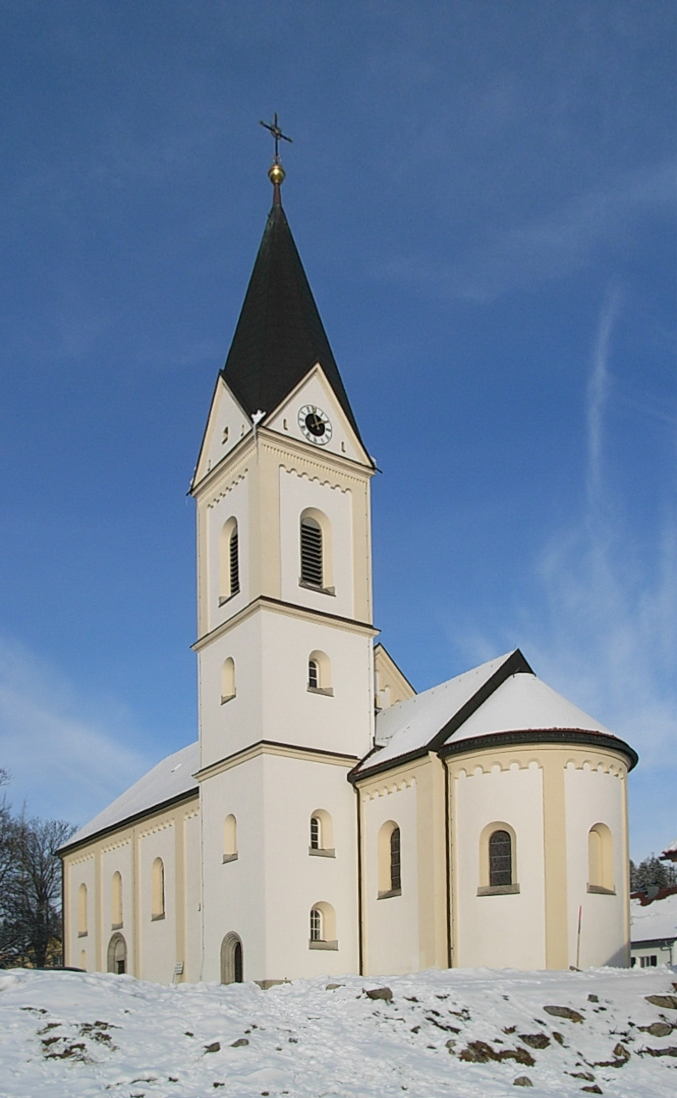 Ludwigsthal, Parish Church of the Sacred Heart from south-west.